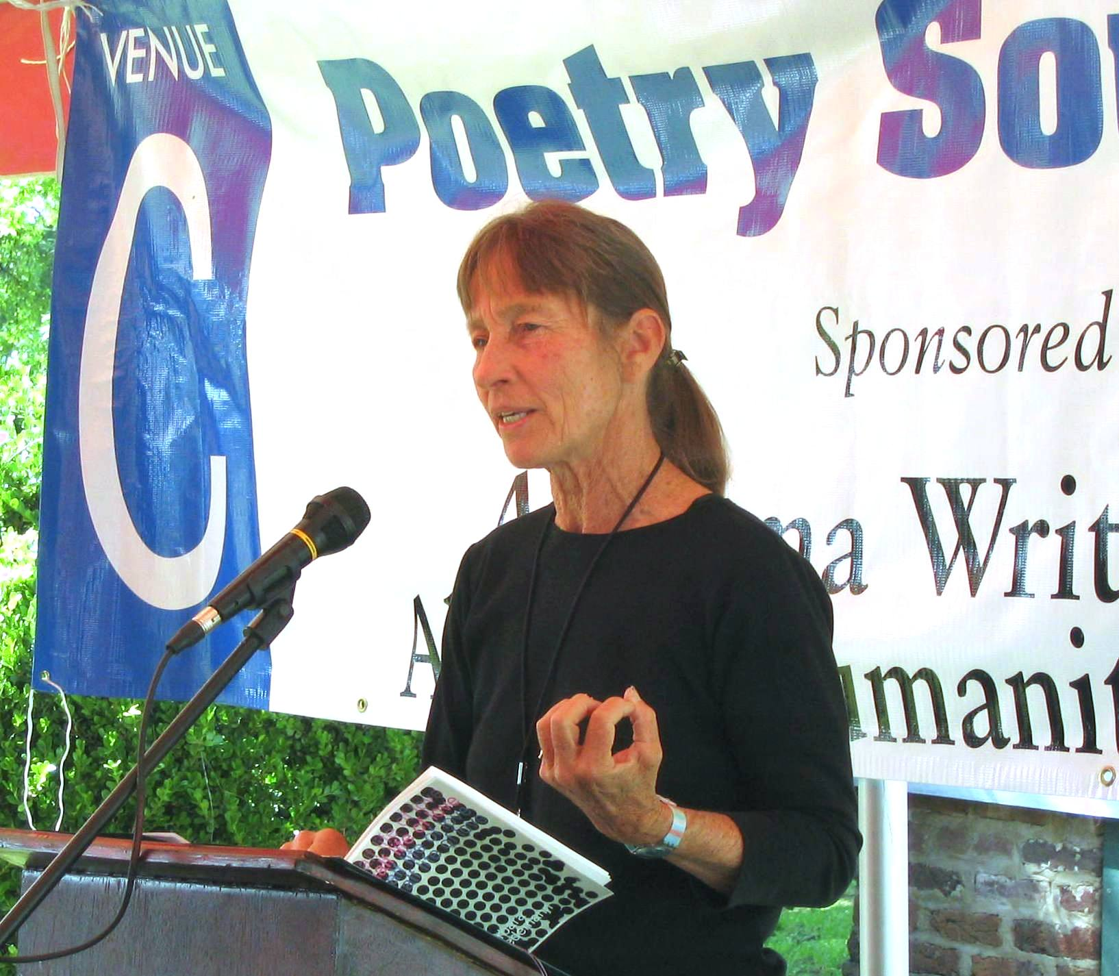 Barbara Wiedemann reading from Half-Life of Love at BookFest 2009, Montgomery, AL